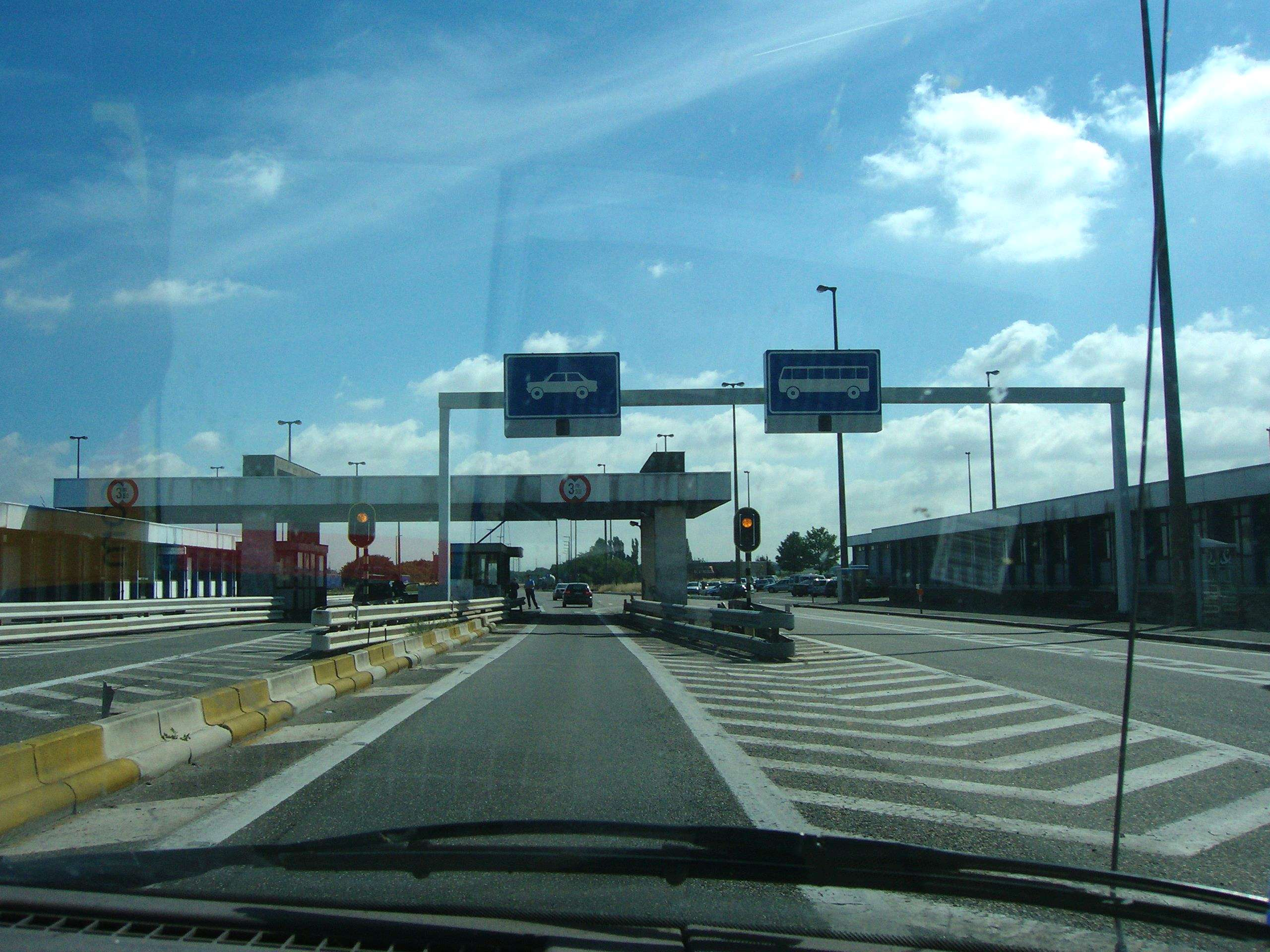 Border checkpoint of France and Belgium, E17 near Rekkem, customs on Belgian side